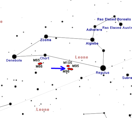 Map of M96